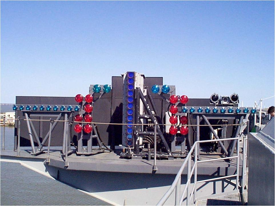 Shipboard Improved Fresnels Lens Optical Landing System.